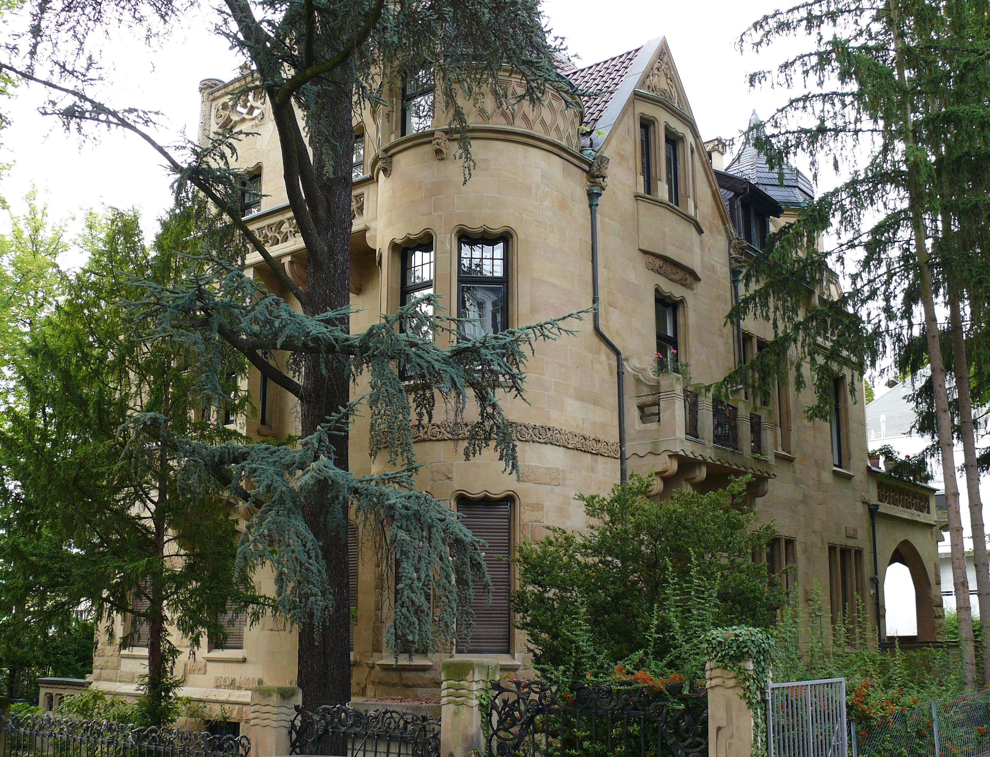 Villa in Wiesbaden, Germany, 14 Humboldt St